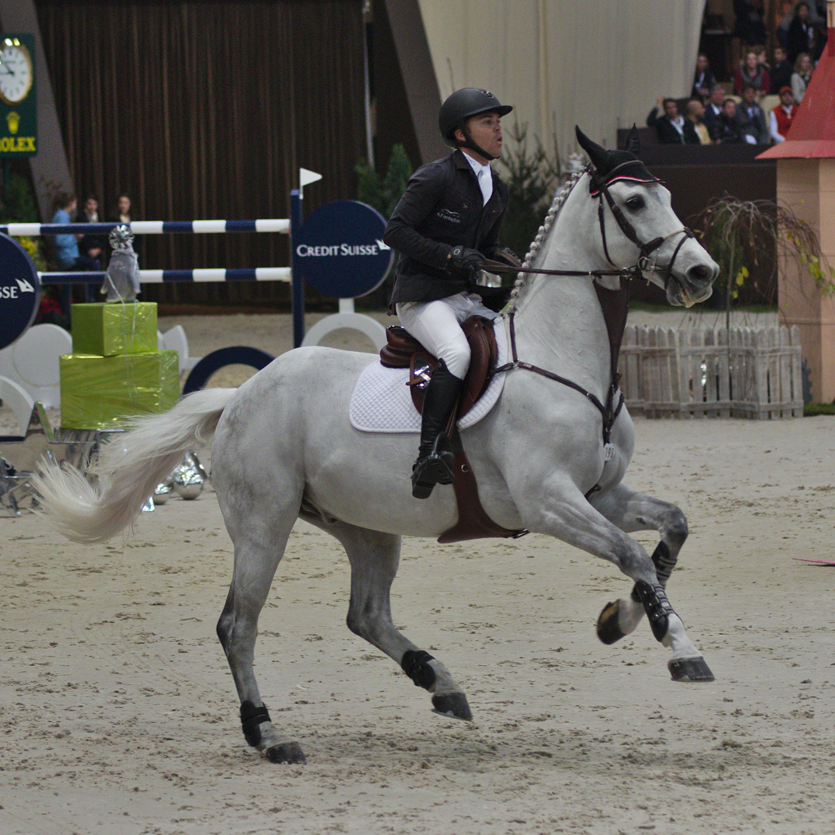 CHI Genève 2013 - 20131213 - Kent Farrington et Willow